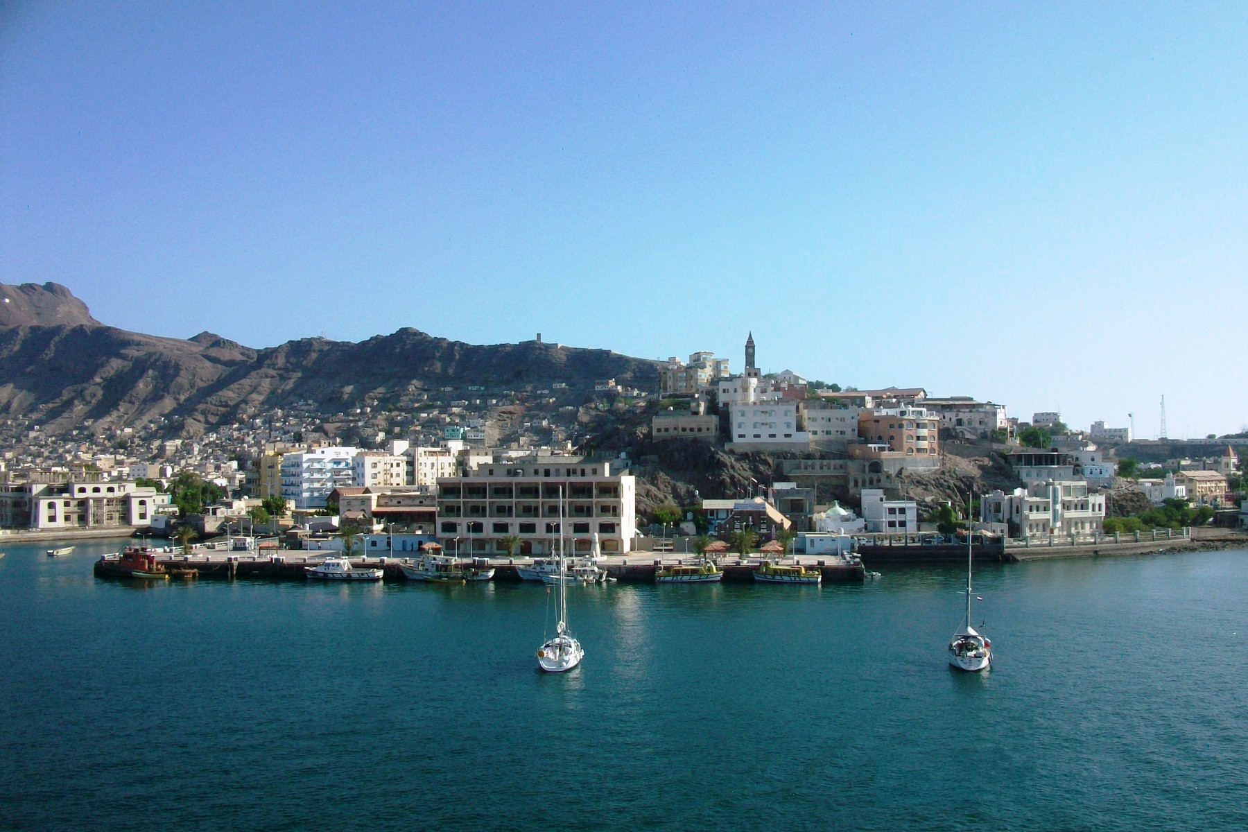 A structural building and pier of the city of Aden.